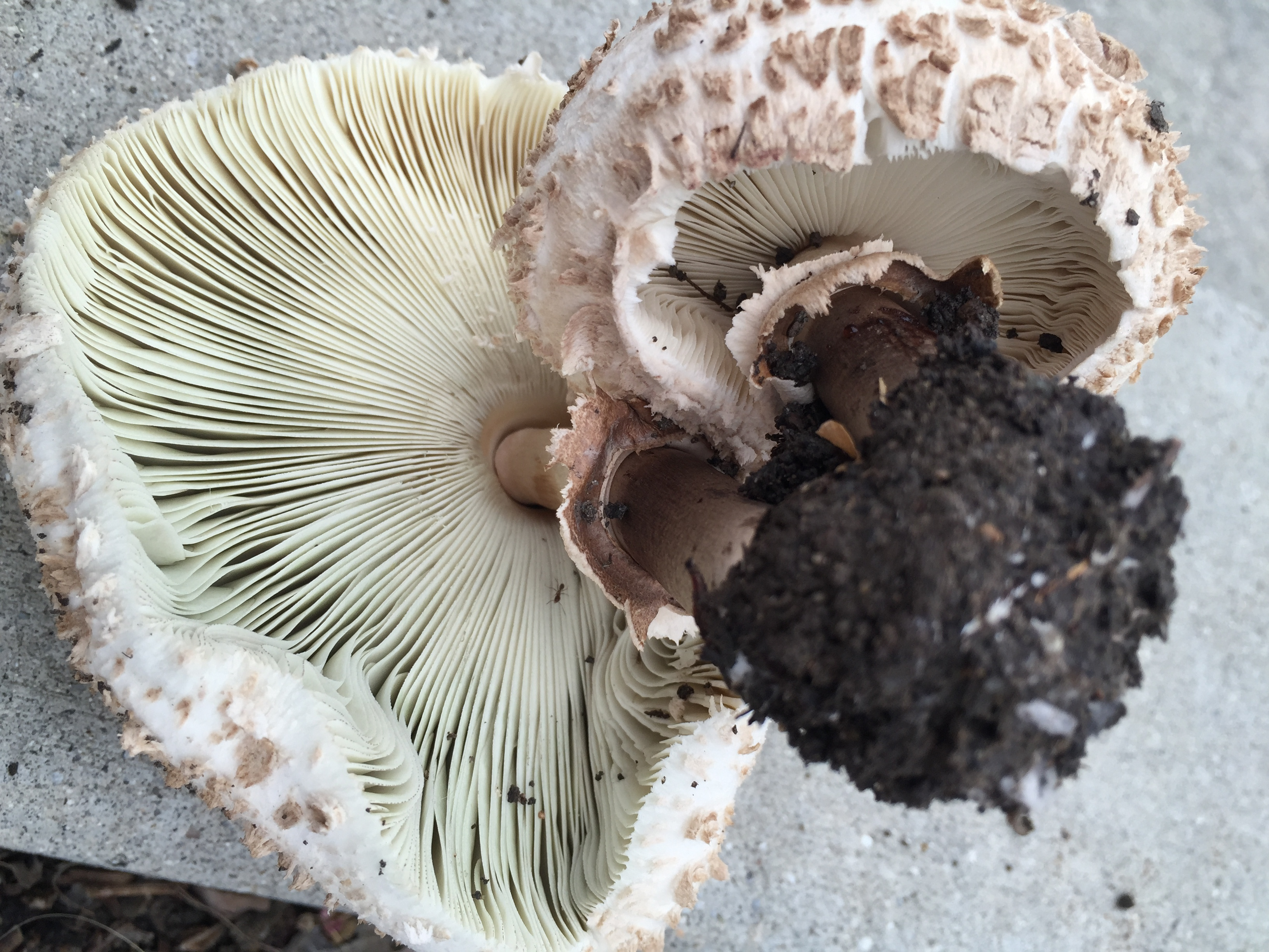 Chlorophyllum molybdites (G. Mey.) Massee Image location: Hanson’s Shopping Center on Del Obispo, San Juan Capistrano, California, USA From what I’ve read of this species, this fruiting sounds very typical: hot summer day in July in Orange County, Southern California. It was growing in the corner of a patch of soil in a grocery store parking lot, and looking impressively robust and fleshy despite the lack of any sort of recent rain in the area. There may be sprinklers in the area, though I forgot to check. Very glad to finally see this mushroom for the first time, I was fascinated by the idea of a green-spored mushrooms when first learning about it many years ago! Description: the mushrooms were very willing to shed their cap scales on everything they touched, edges of cap very frayed. The gill color of the older two mushrooms was distinctively pale green, while less so for the younger. The spore print of the younger one (not pictured) was surprisingly more cream than anything, with white bits but no hint of green like in the older mushroom’s print which is pictured. Stipe light above the veil, dark below. Very distinctive dark orange to brown coloration where the caps and stalks were separated, similar to C. rhacodes, noticed about an hour after I picked the mushrooms and inspected them at home. Recognized by sight: Recognized by sight and very clear, distinctive spore print For more information about this, see the observation page at Mushroom Observer.